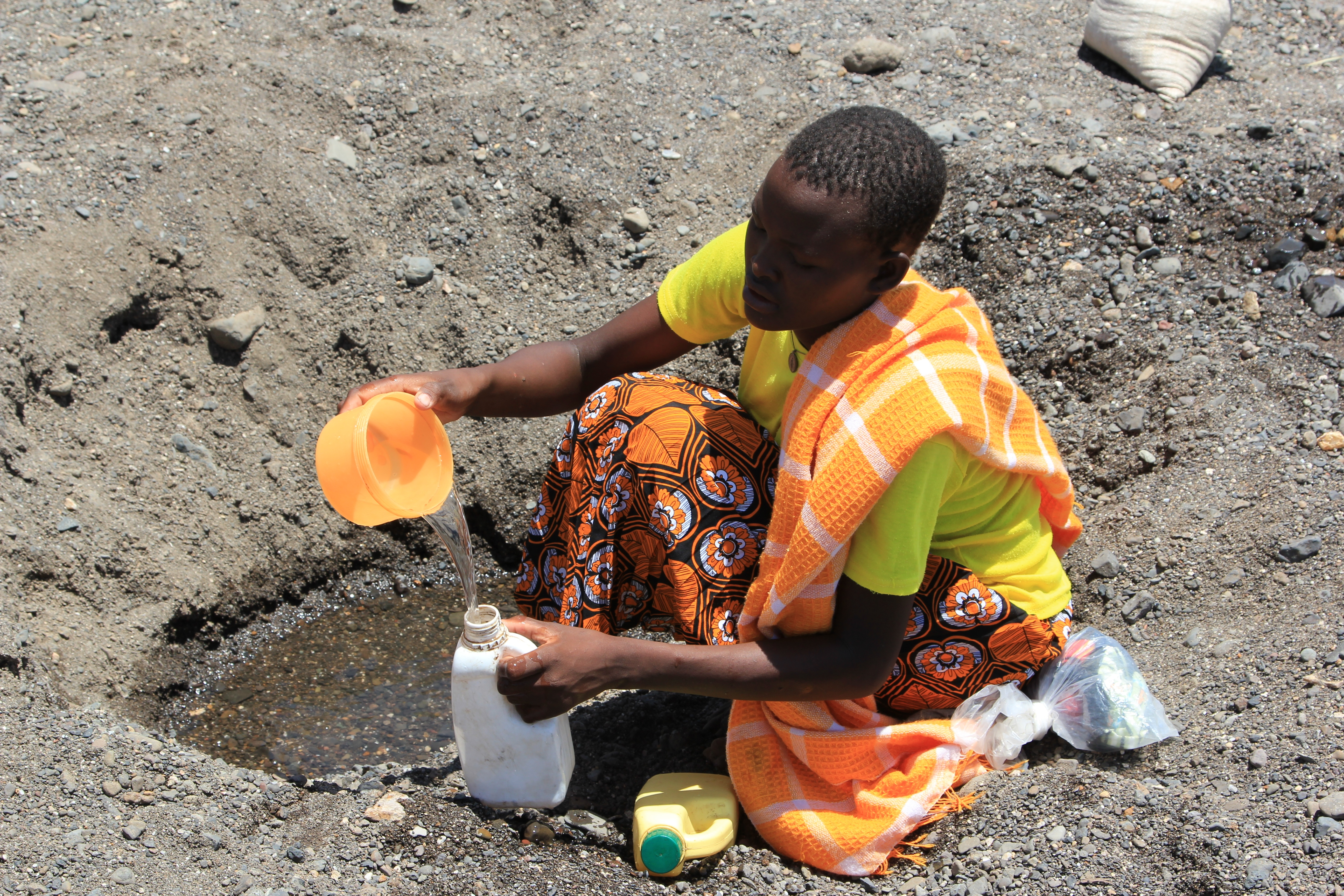 A woman scoops water in a dry riverbed near Kataboi village in remote Turkana in northern Kenya. In 40 degree heat and with no access to clean water, she resorts to collecting unfiltered water for her family in containers. The lack of rain this year across the Horn of Africa has resulted in failed crops, lack of water and death of livestock. The Government of Kenya declared the drought a national disaster as 3.5 million people in the country are in need of emergency assistance. Picture: Marisol Grandon/Department for International Development